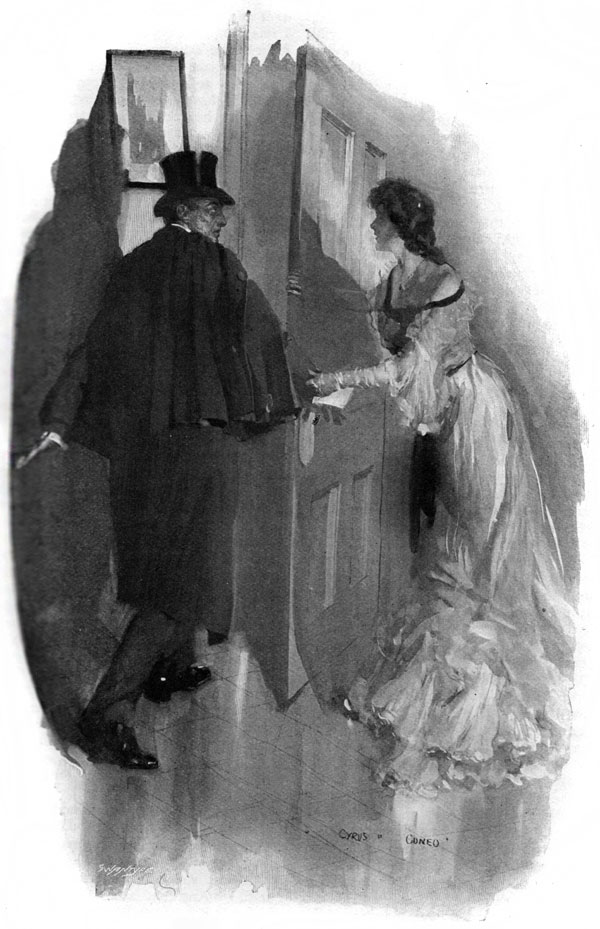 Pall Mall illustration by Cyrus Cuneo of the Raffles short story "Out of Paradise" by E. W. Hornung. This story was first published in the US in Collier’s Weekly in the December 10, 1904 issue, and in the January 1905 issue of Pall Mall Magazine in the UK. It takes place in May, 1891.